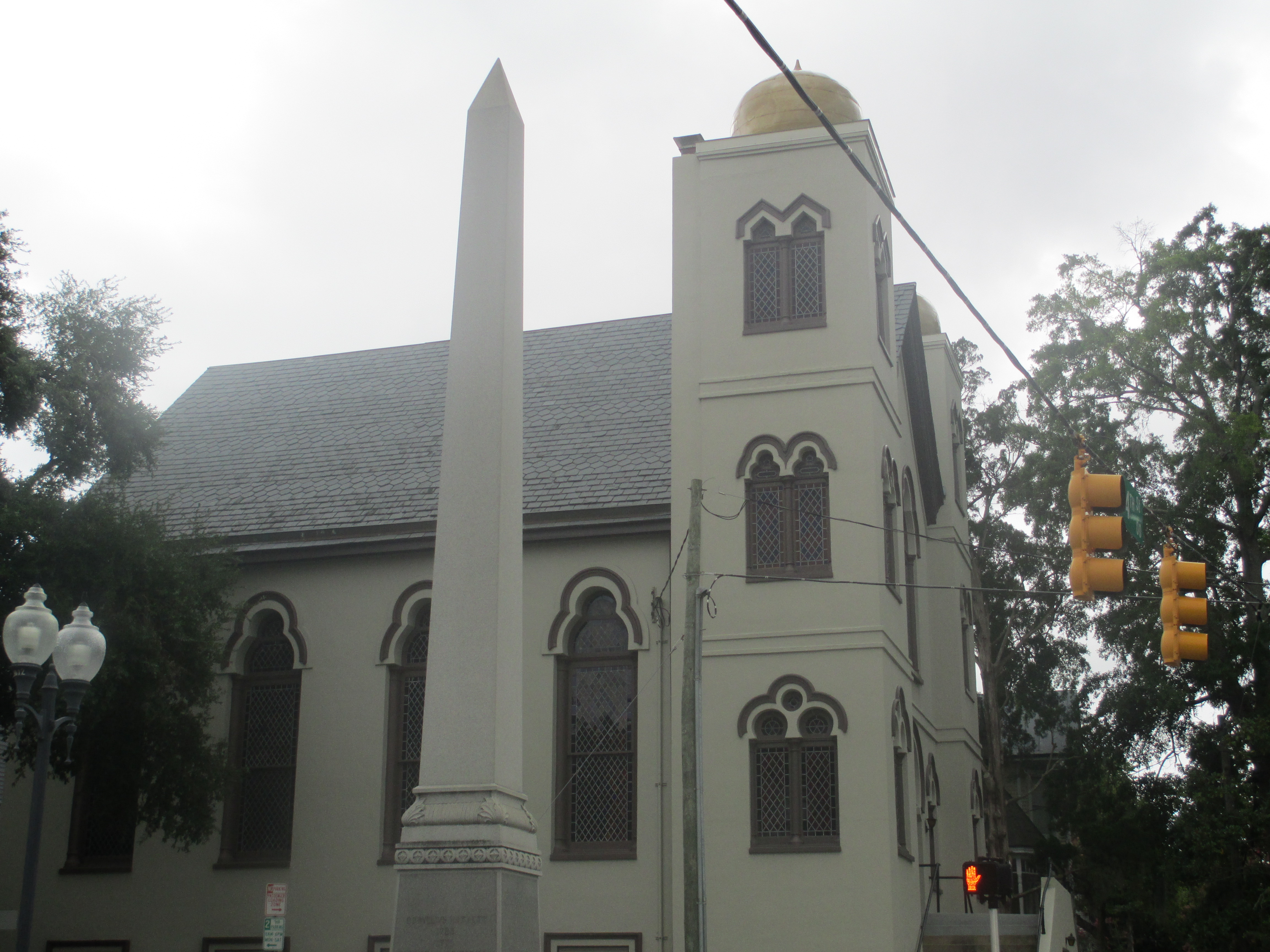 I took photo with Canon camera from side view of Temple of Israel in Wimington, NC.